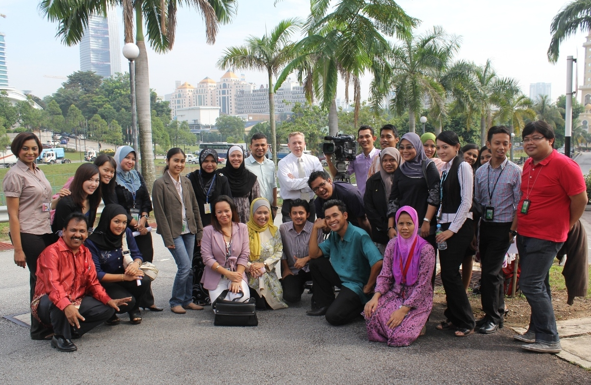 Asiavision training at RTM-Malaysia